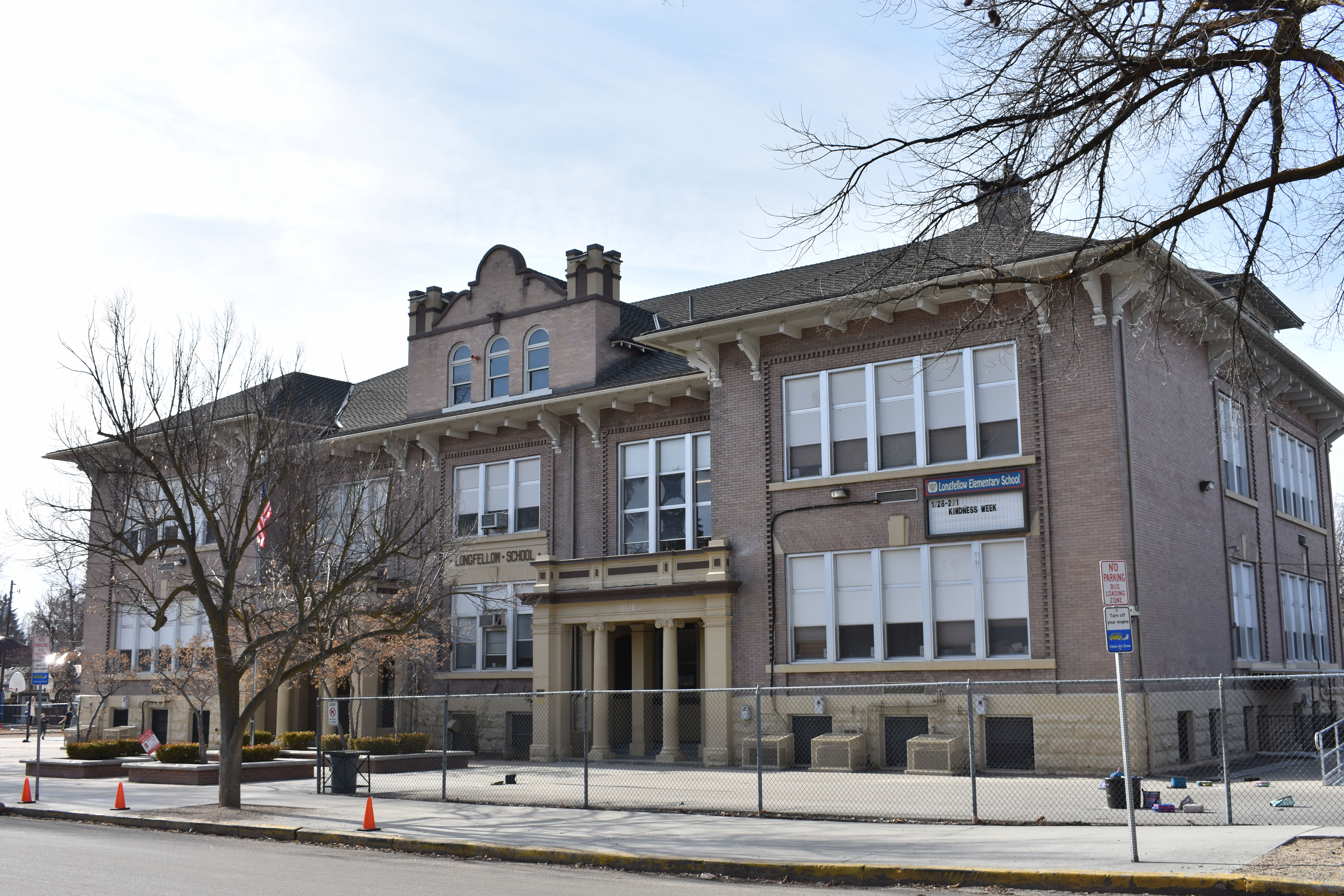 Longfellow School (1906) in Boise, Idaho, was designed by Wayland & Fennell and is listed on the National Register of Historic Places.